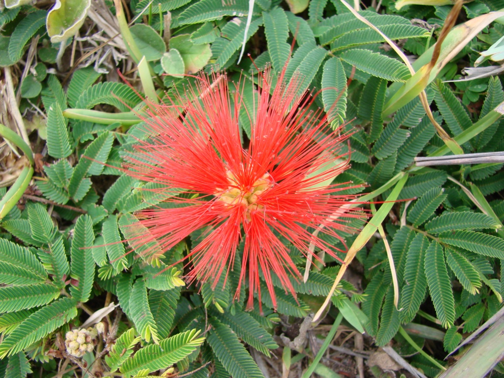 Calliandra tweedii - FABACEAE - Imbituba - SC ? Brasil